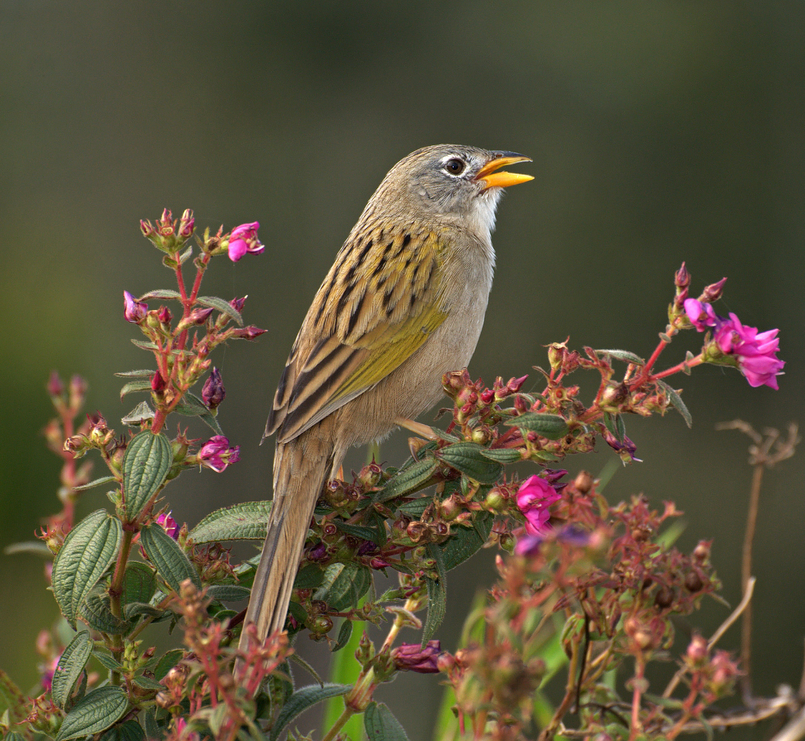 A Wedge-tailed Grass-finch (Emberizoides h. herbicola) singing at a nature reserve in Piraju, São Paulo, Brazil.